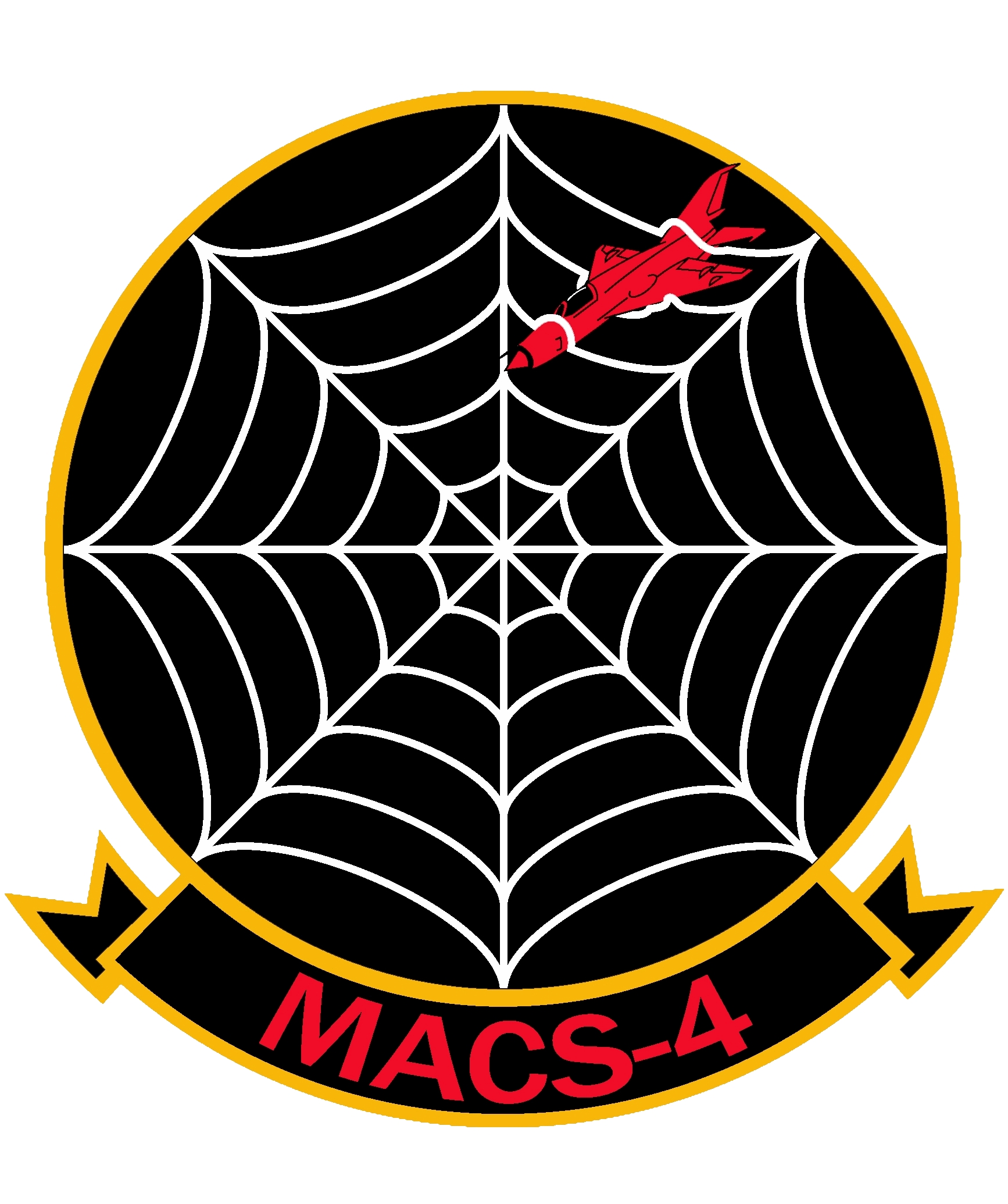 Official unit insignia for Marine Air Control Squadron 4 (MACS-4)